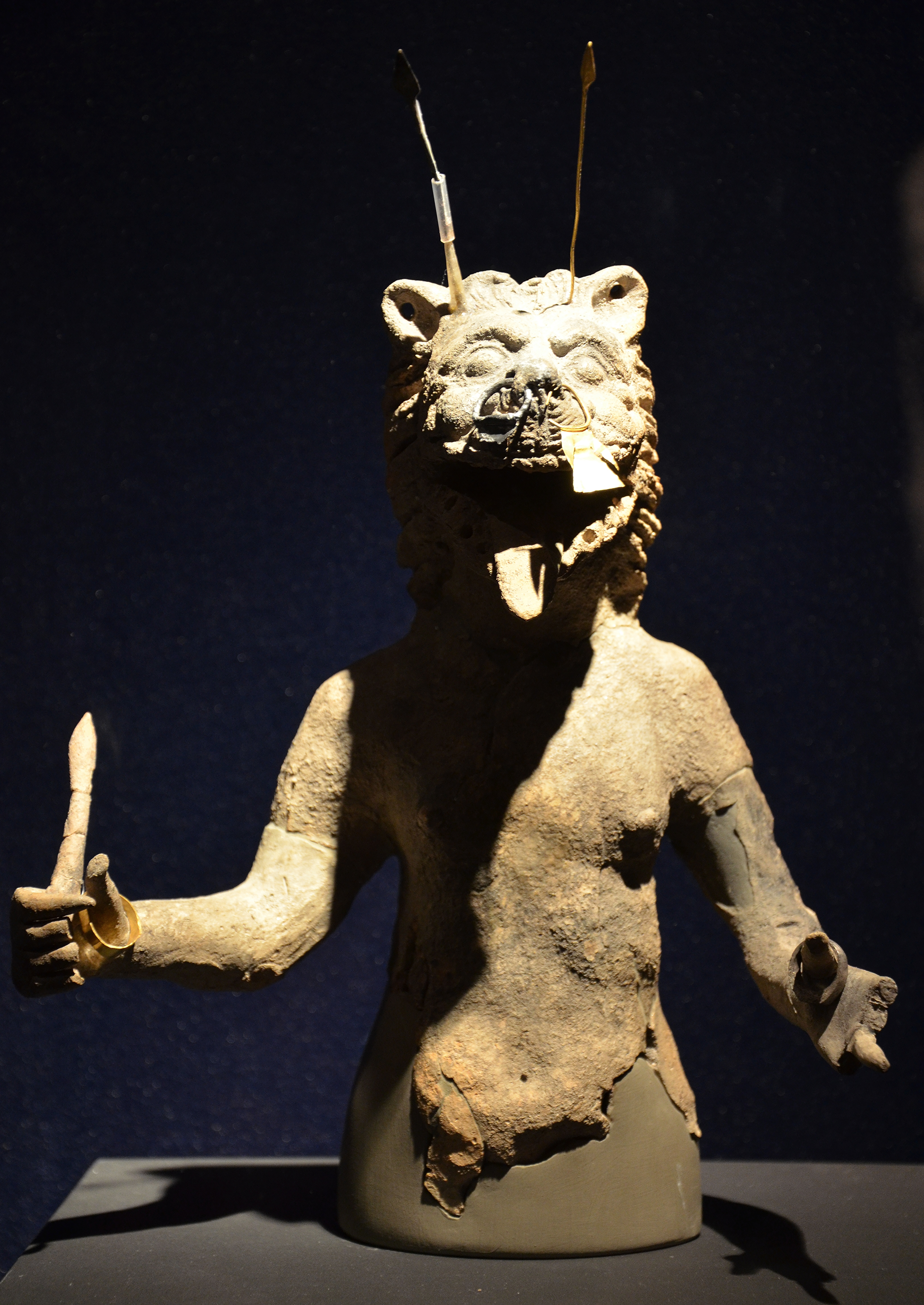 Terracotta statue of lion-headed man with gold and silver insets, 6th-5th century BC, from Tharros, Sardinia, Monsters. Fantastic Creatures of Fear and Myth Exhibition, Palazzo Massimo alle Terme, Rome